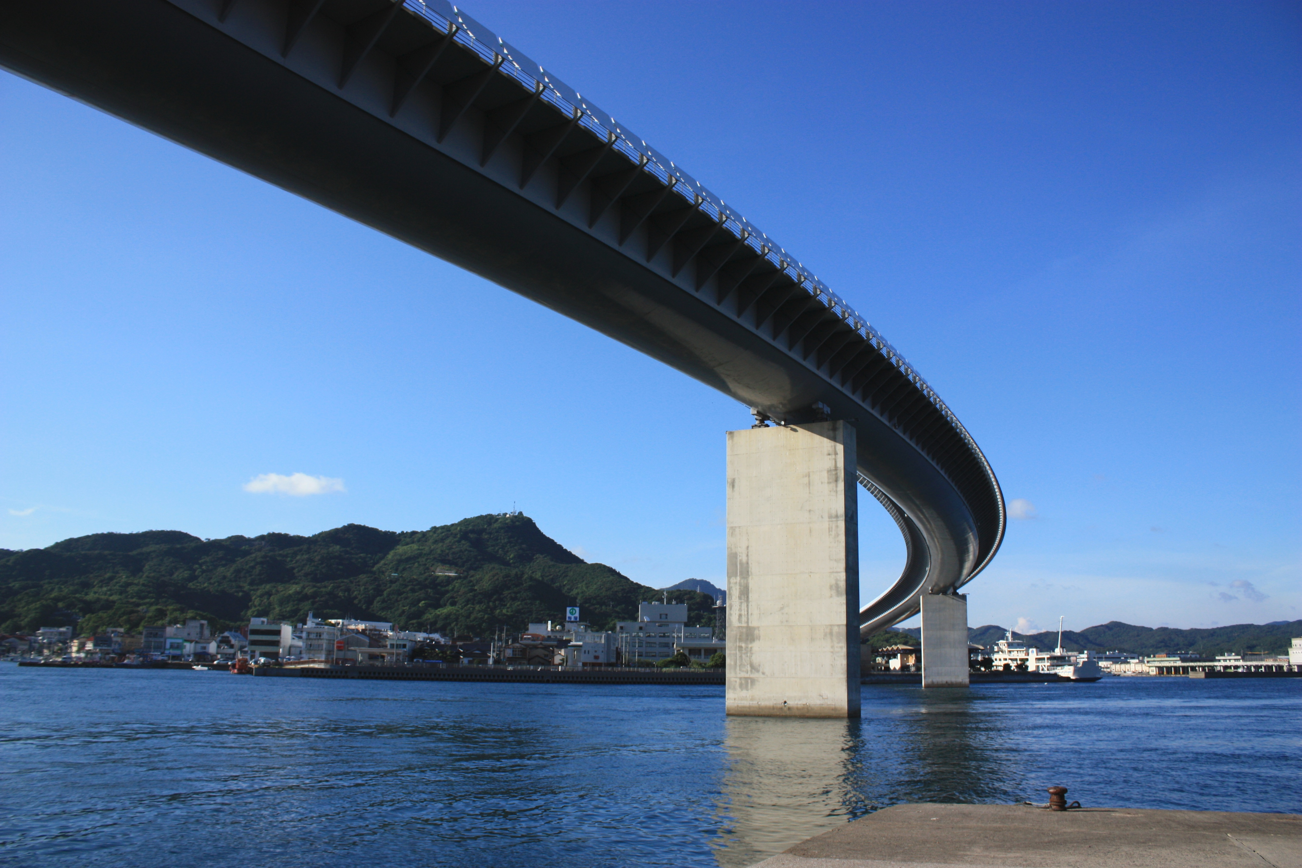 The Ushibuka Haiya Bridge in Ushibuka, Kumamoto prefecture, Japan